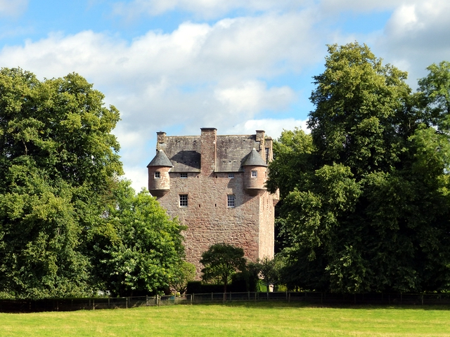 Spedlin's Tower